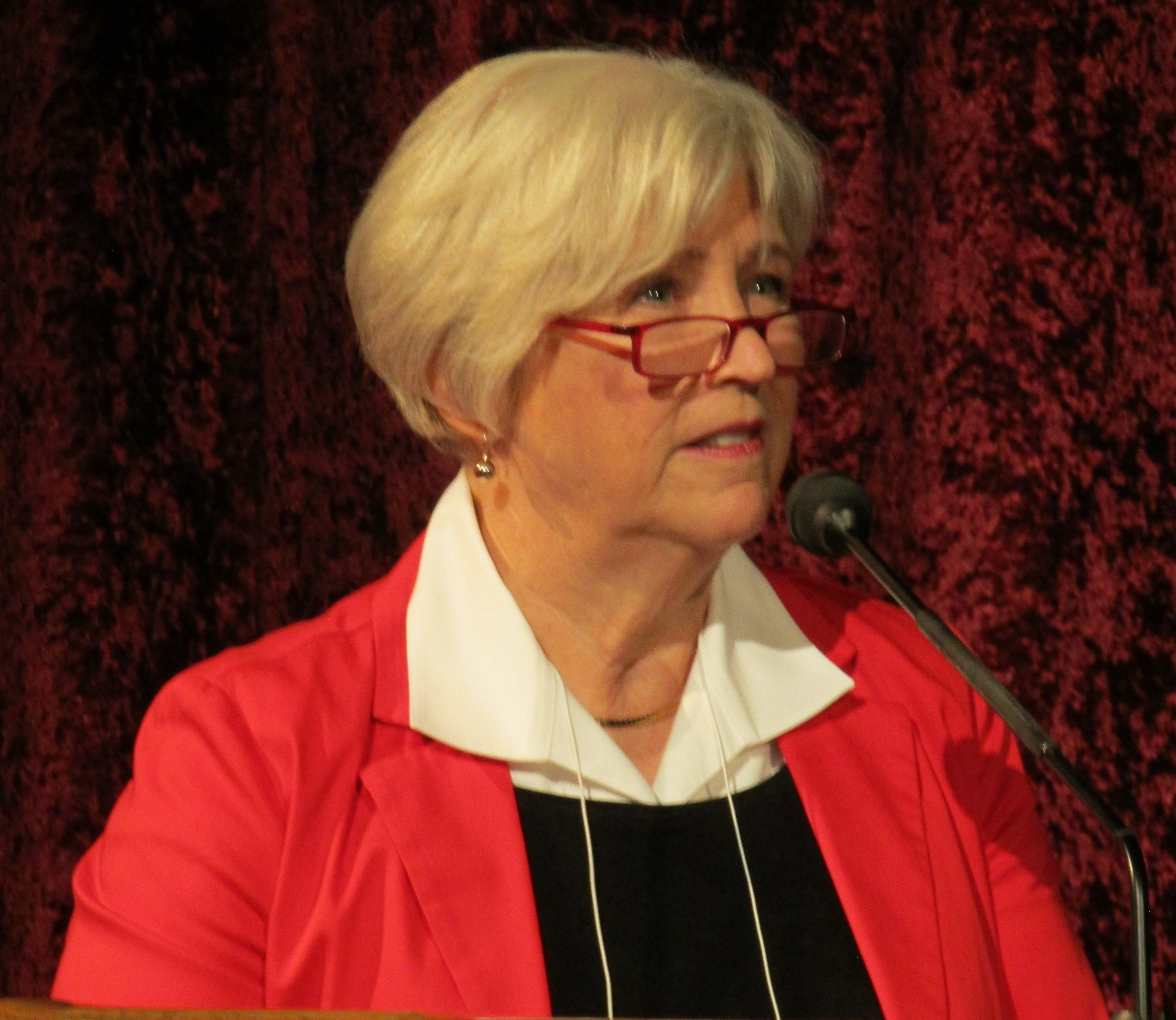 Neill F. Marriott gives her speech "What Can a Lay Person Do to Protect Religious Freedom?"